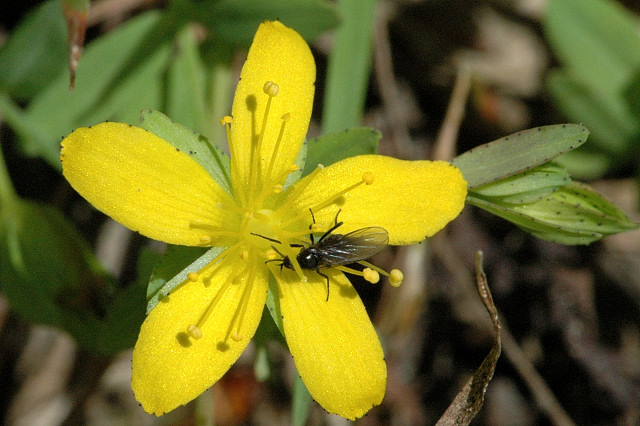 Hypericum humifusum from Commanster, Belgian High Ardennes.